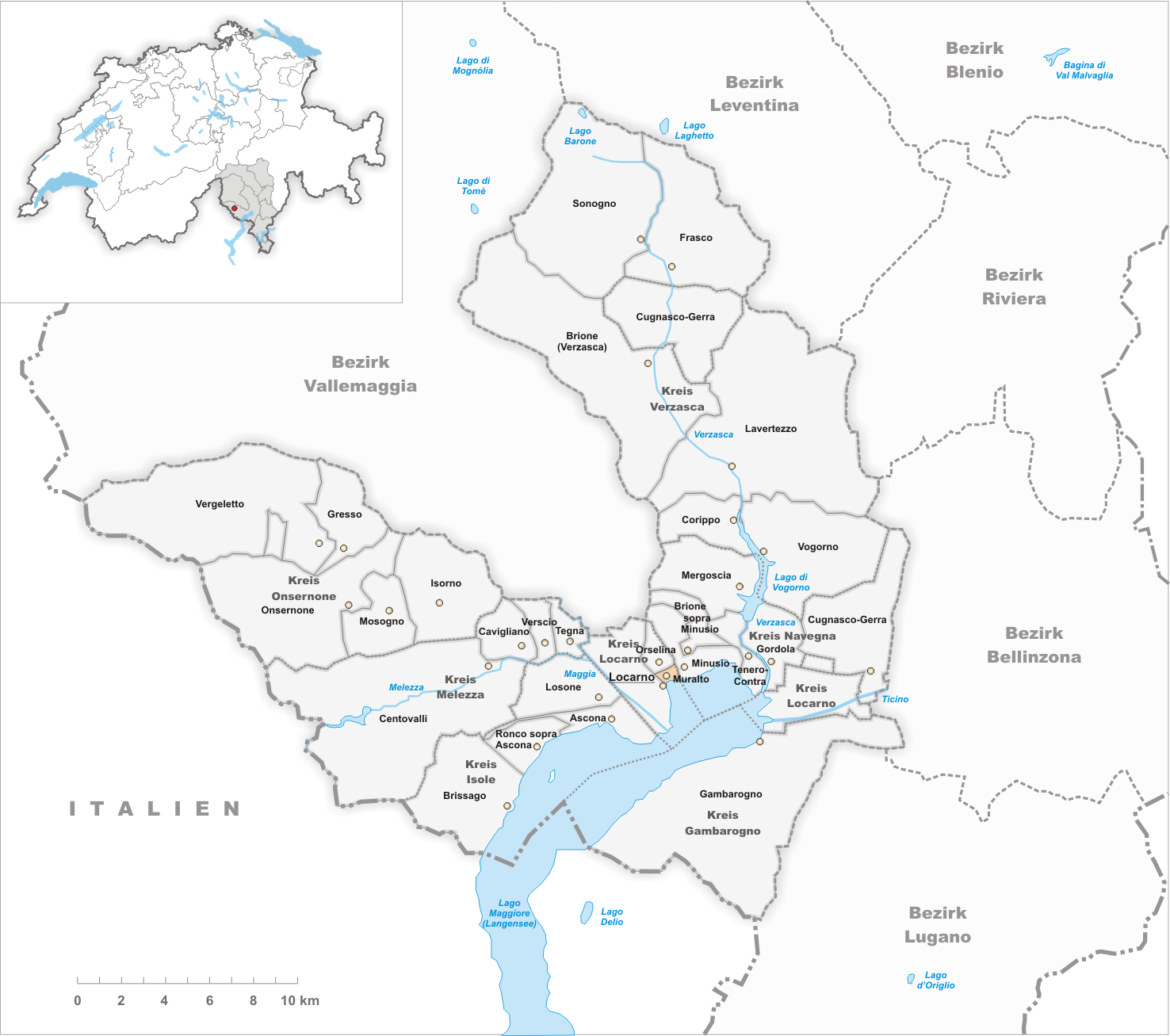 Municipality Muralto Artist: Tschubby